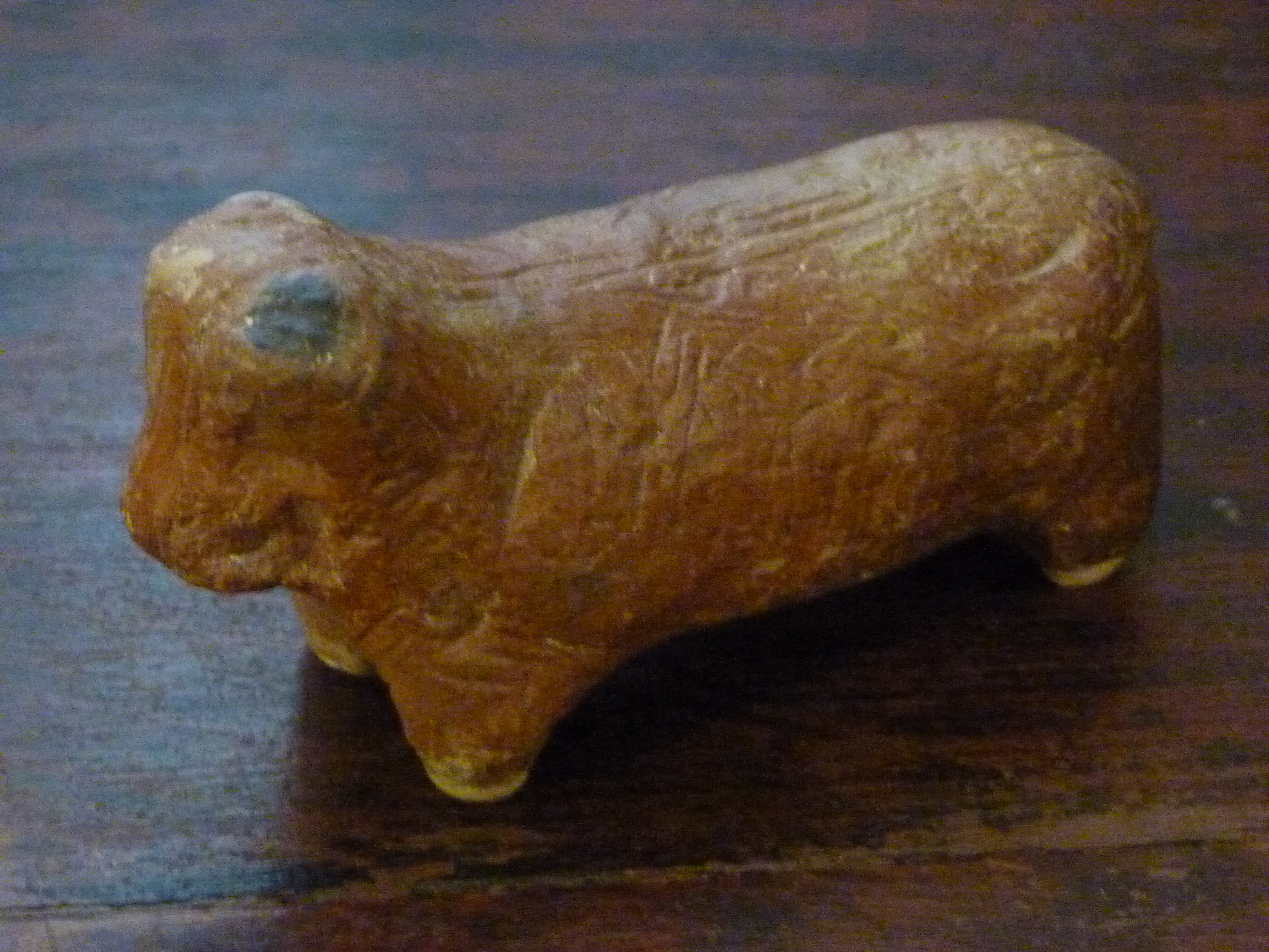 Live on the 26th of March, 2015. Velemér, Hungary. Sindü Museum. Verified copy of the 7500 years old Szentgyörgyvölgy cow. ©© Derzsi Elekes Andor, Budapest, 2015, Published in the Metapolisz DVD line. You are authorised to use this photo under Creative Commons – even for commercial, for profit purposes. The photo must be attributed to Derzsi Elekes Andor. All of the photos and vids in the Metapolisz DVD line are under Creative Commons and can be used even for commercial – for profit – purposes. Recommended Citation Derzsi Elekes Andor: Metapolisz DVD line Tags: Géza Varga Velemér Hungary Szentgyörgyvölgy cow Hungarian Hieroglyph Writing